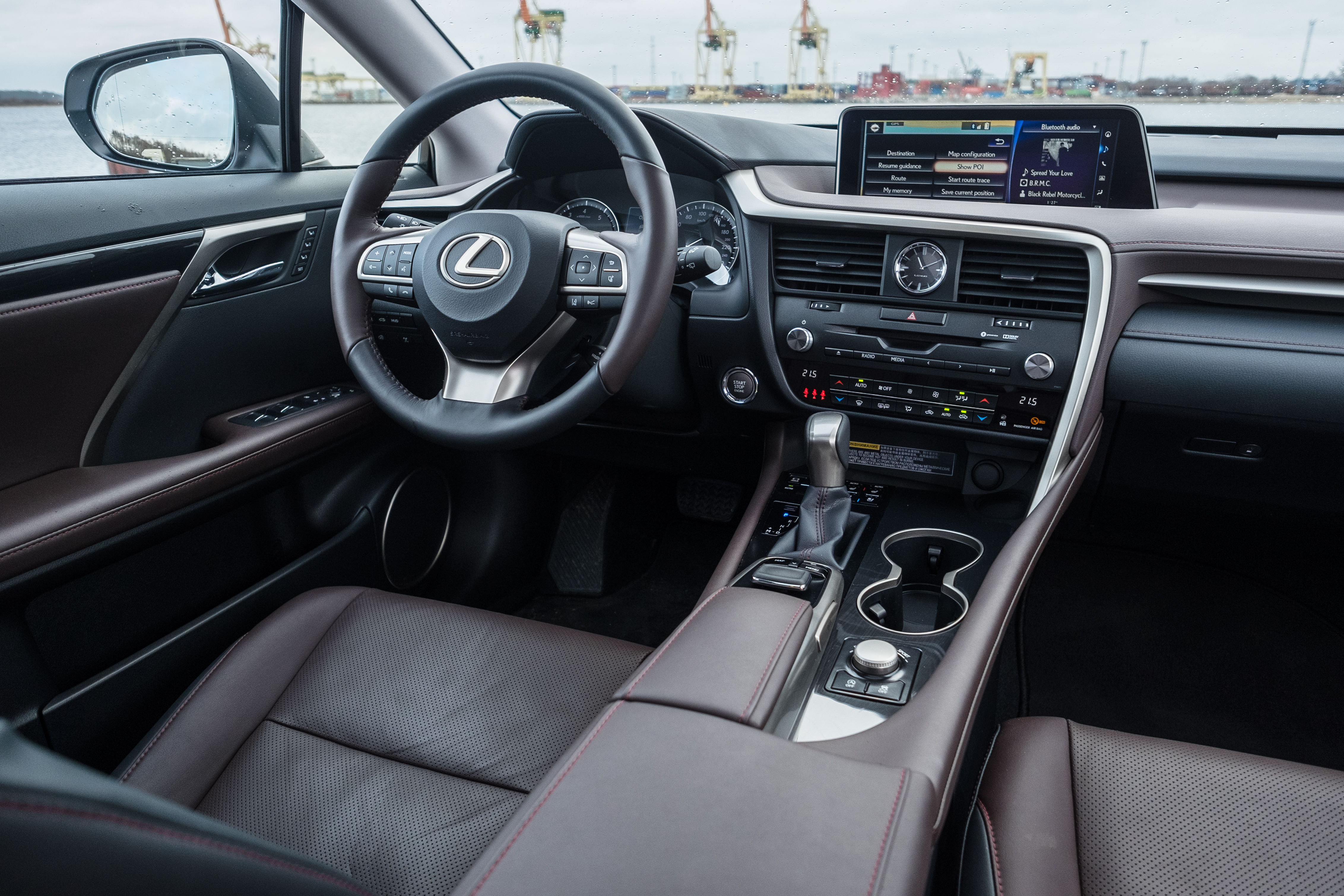 Lexus RX 200t 2016 interior in Latvia